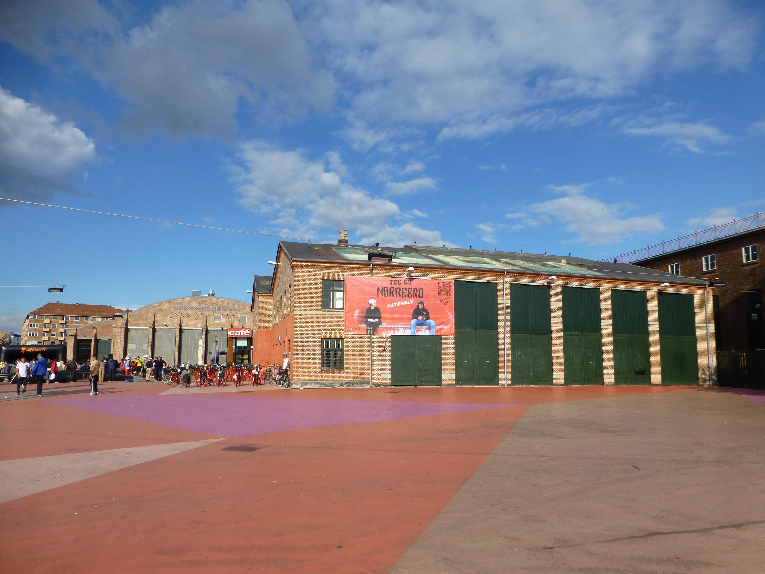 The sport arena Nørrebrohallen in Nørrebro in Copenhagen. The building former housed the tram depot Nørrebro Remise.